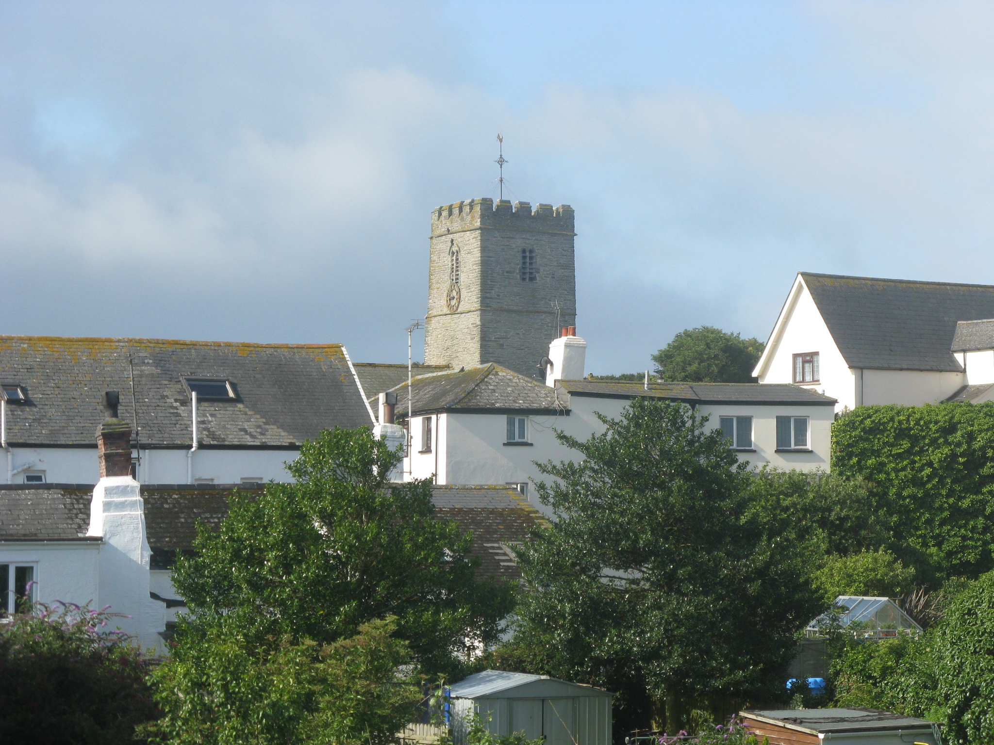 St. Mary's Church, Mortehoe, Devon/England